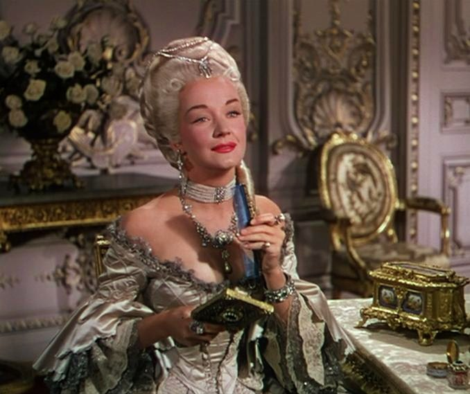 Nina Foch in Scaramouche - trailer (cropped screenshot)